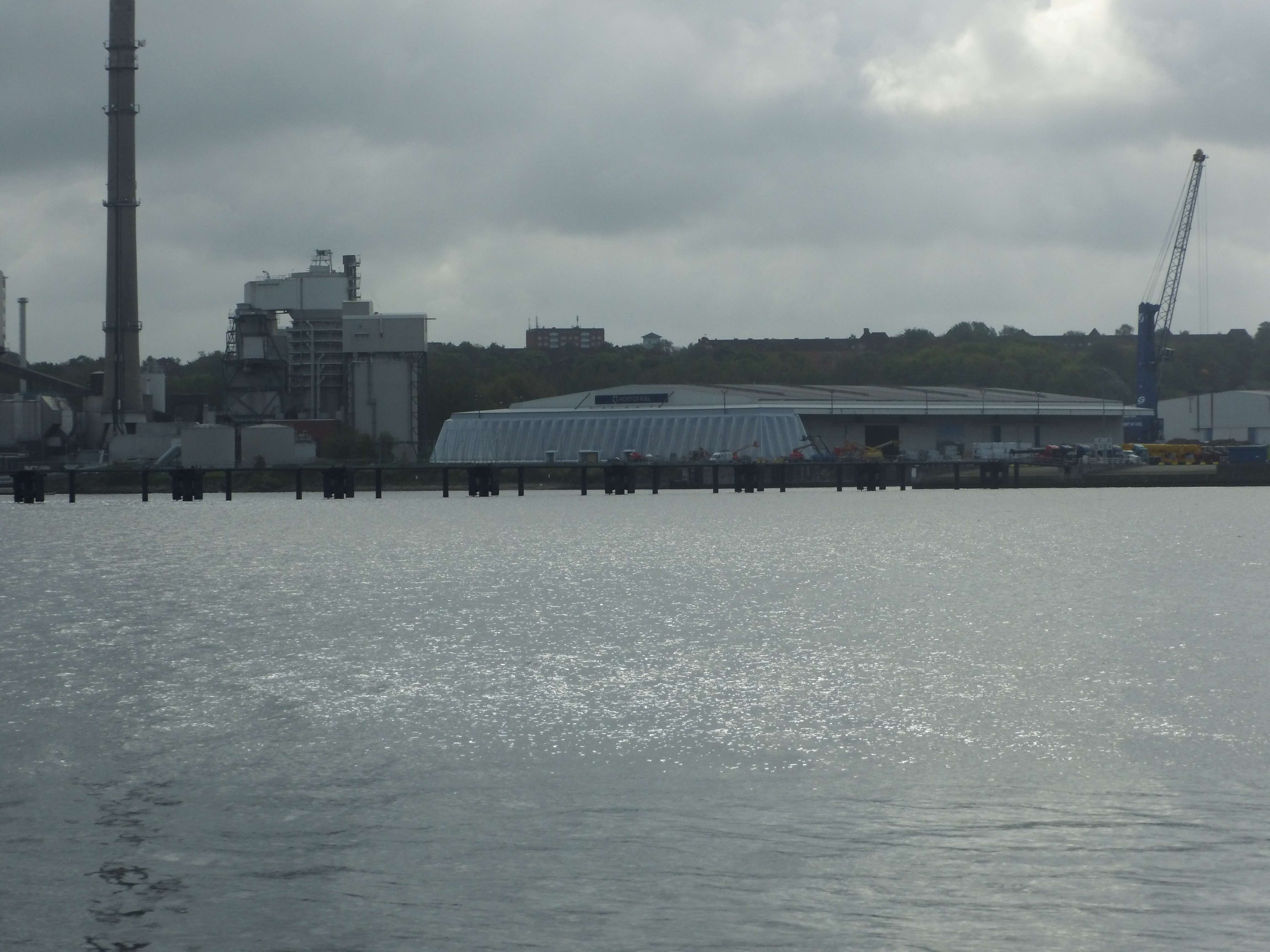 Cruise Terminal in Ostuferhafen, Kiel